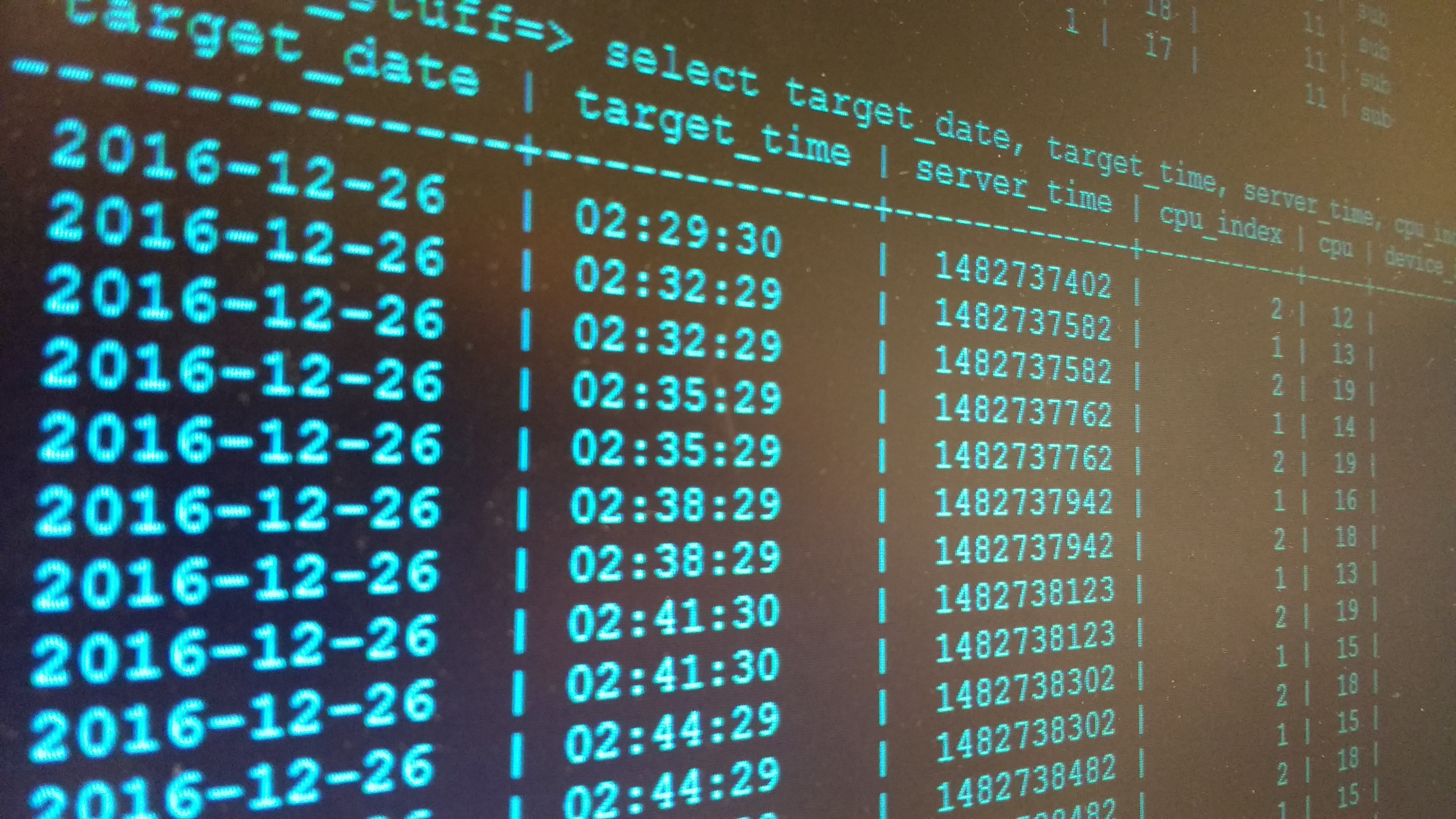 An example of data being returned after a successful query in Postgres SQL.